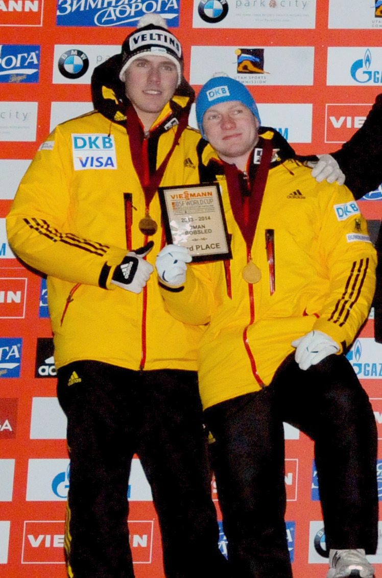 The two-man bobsled podium Dec. 6 at the International Bobsled & Skeleton Federation's 2013 World Cup stop at Utah Olympic Park in Park City, Utah. Germany's Francesco Friedrich and Jannis Baecker took the bronze. U.S. Army photo by Tim Hipps, IMCOM Public Affairs